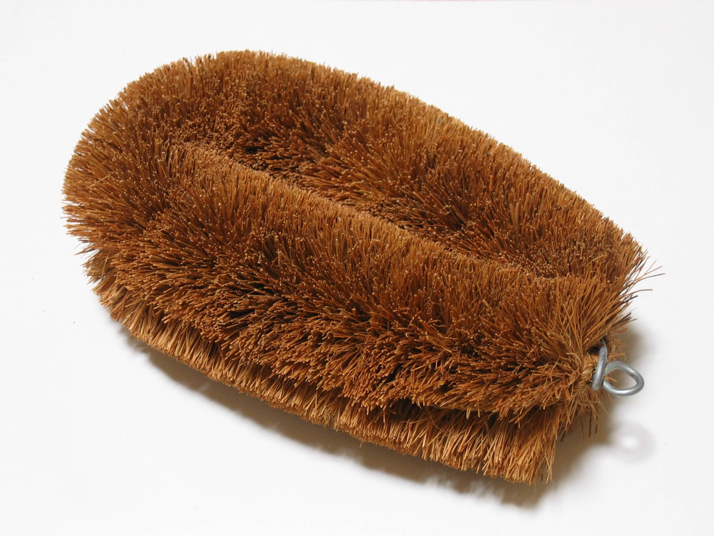 Tawashi (たわし [束子] ) is a Japanese scourer.